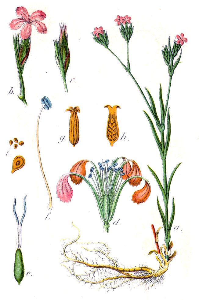 Dianthus armeria L. (IPNI Id: 158599-1) : Dianthus armeria L., syn. possibly Silene vaga E.H.L.Krause Original Caption Weg-Nelke, Silene vaga